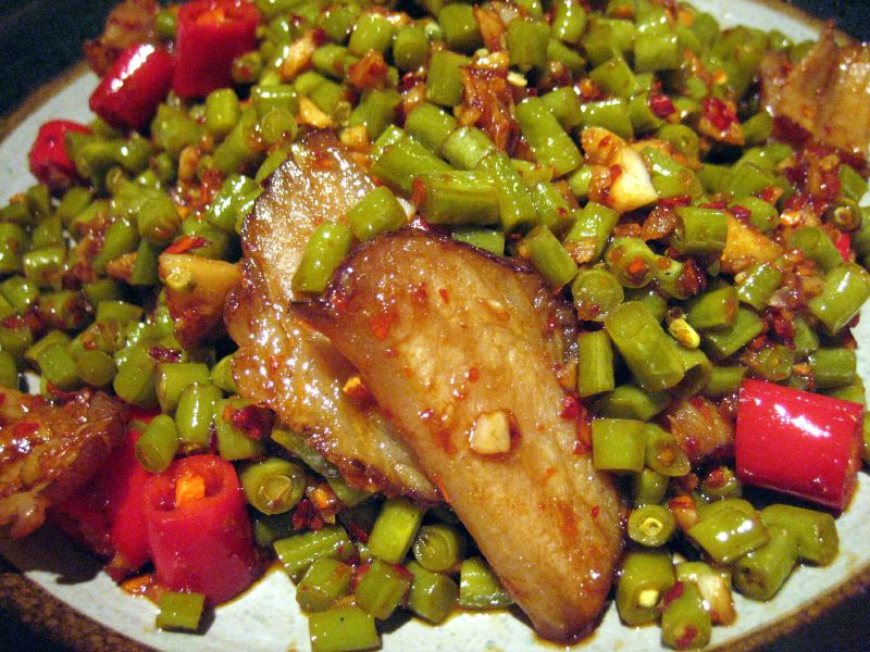 Typical example of Hunanese cured ham with pickled cowpeas